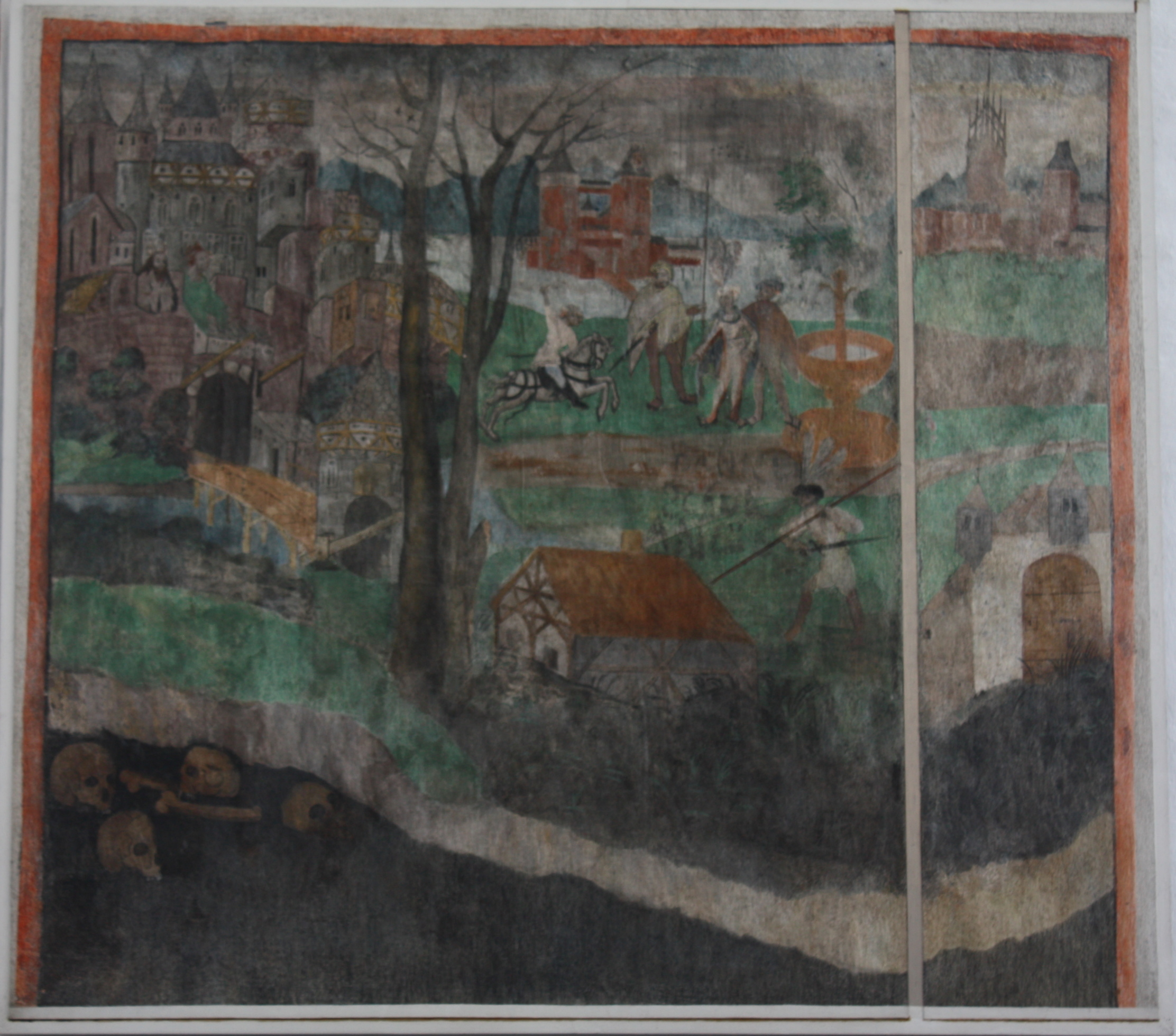 Gdańsk, St. Mary's Church, Gothic murals